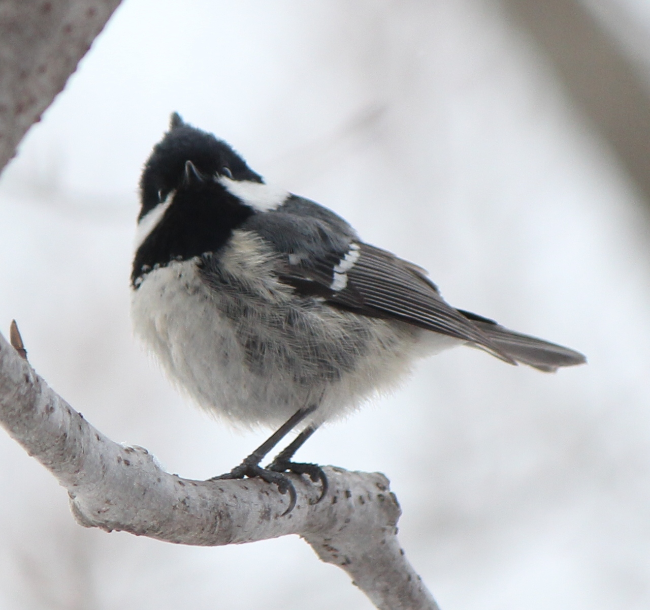 Periparus ater insularis (Coal tit) on tree, in Mount Funabuse, Yamagata, Gifu prefecture, Japan.